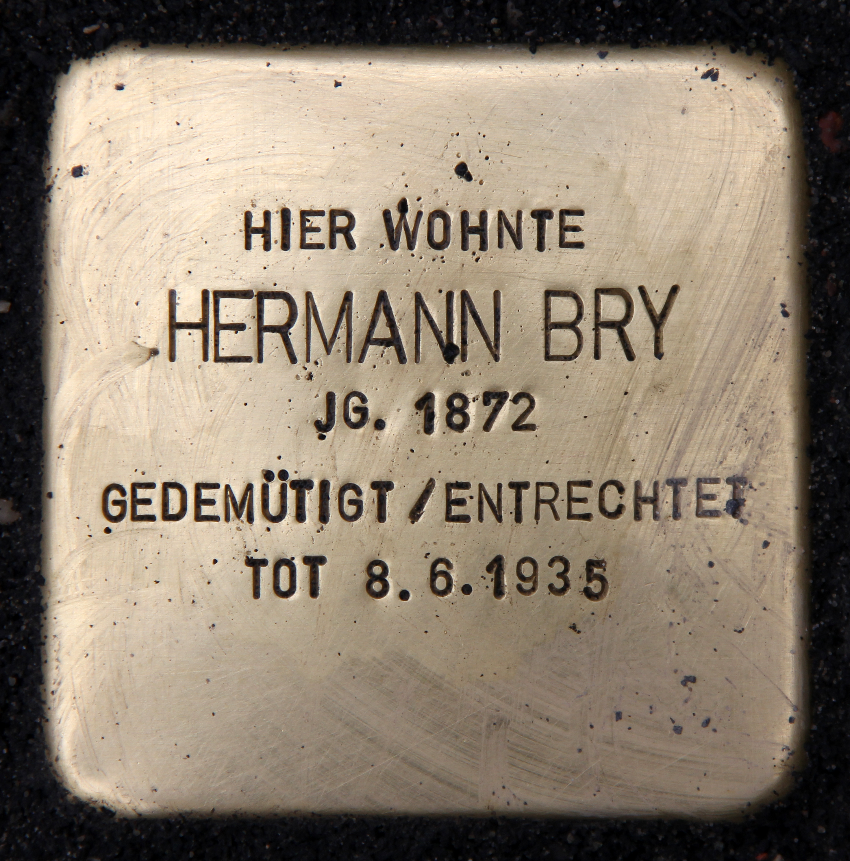 "Stolperstein" (stumbling block), Hermann Bry, Rodelbergweg 12, Berlin-Baumschulenweg, Germany